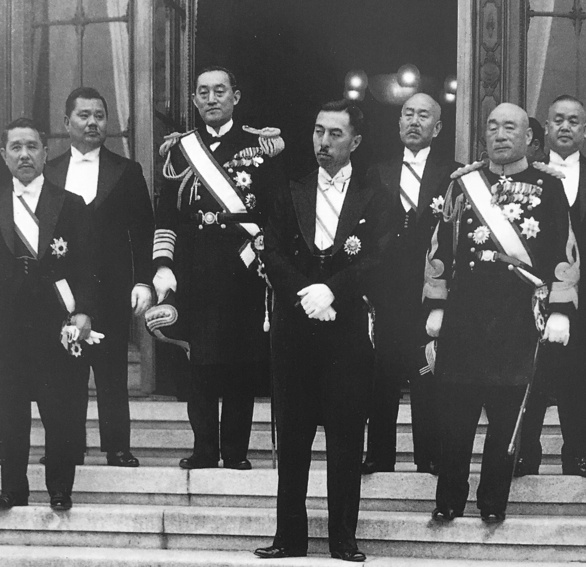 Japanese Prime Minister Fumimaro Konoe (近衛文麿, 1981–1945, in office 1937–39 and 1940–41) with his cabinet ministers, including Naval Minister Mitsumasa Yonai (米内光政, 1880–1948) in the back row left.